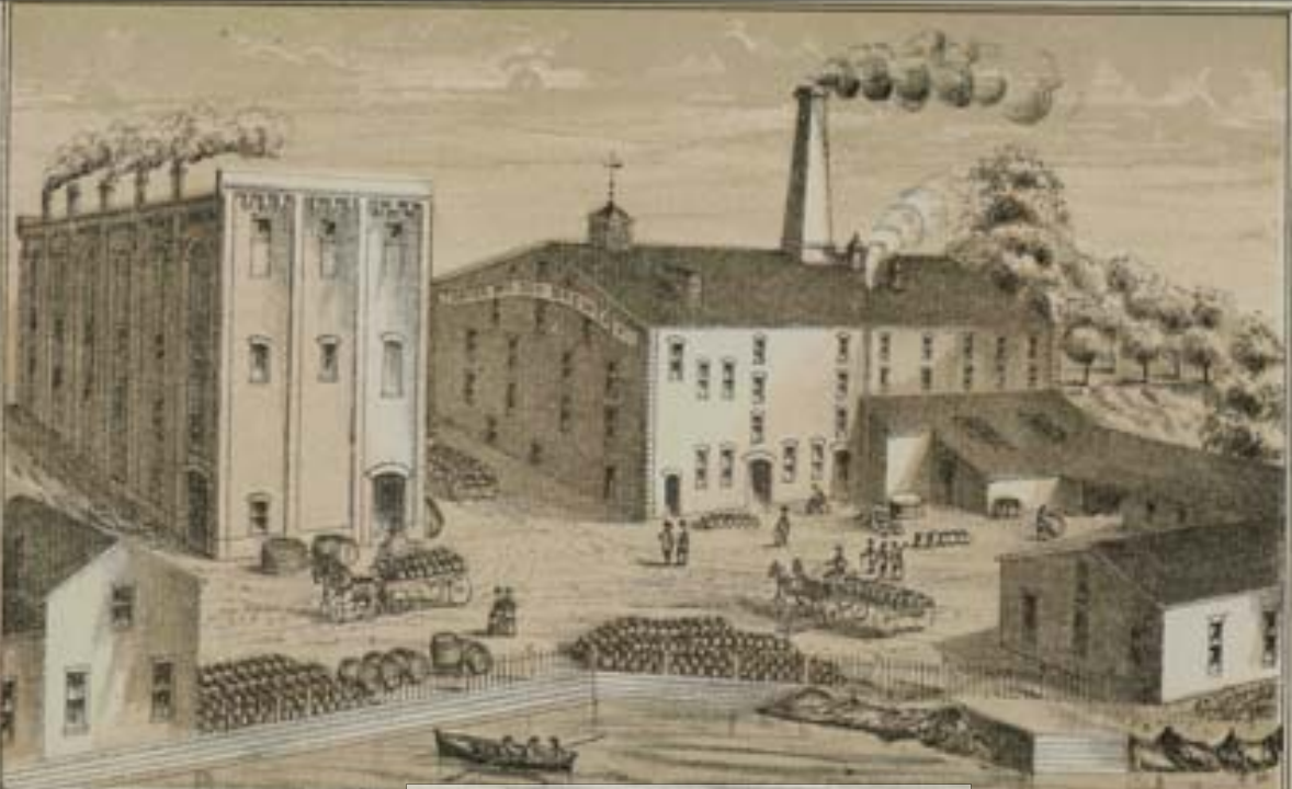 Don Brewery, 1877 This image is available from the City of Toronto Archives, listed under the archival citation Series 496, Sub-series 4, File 3. This tag does not indicate the copyright status of the attached work. A normal copyright tag is still required. See Commons:Licensing for more information.